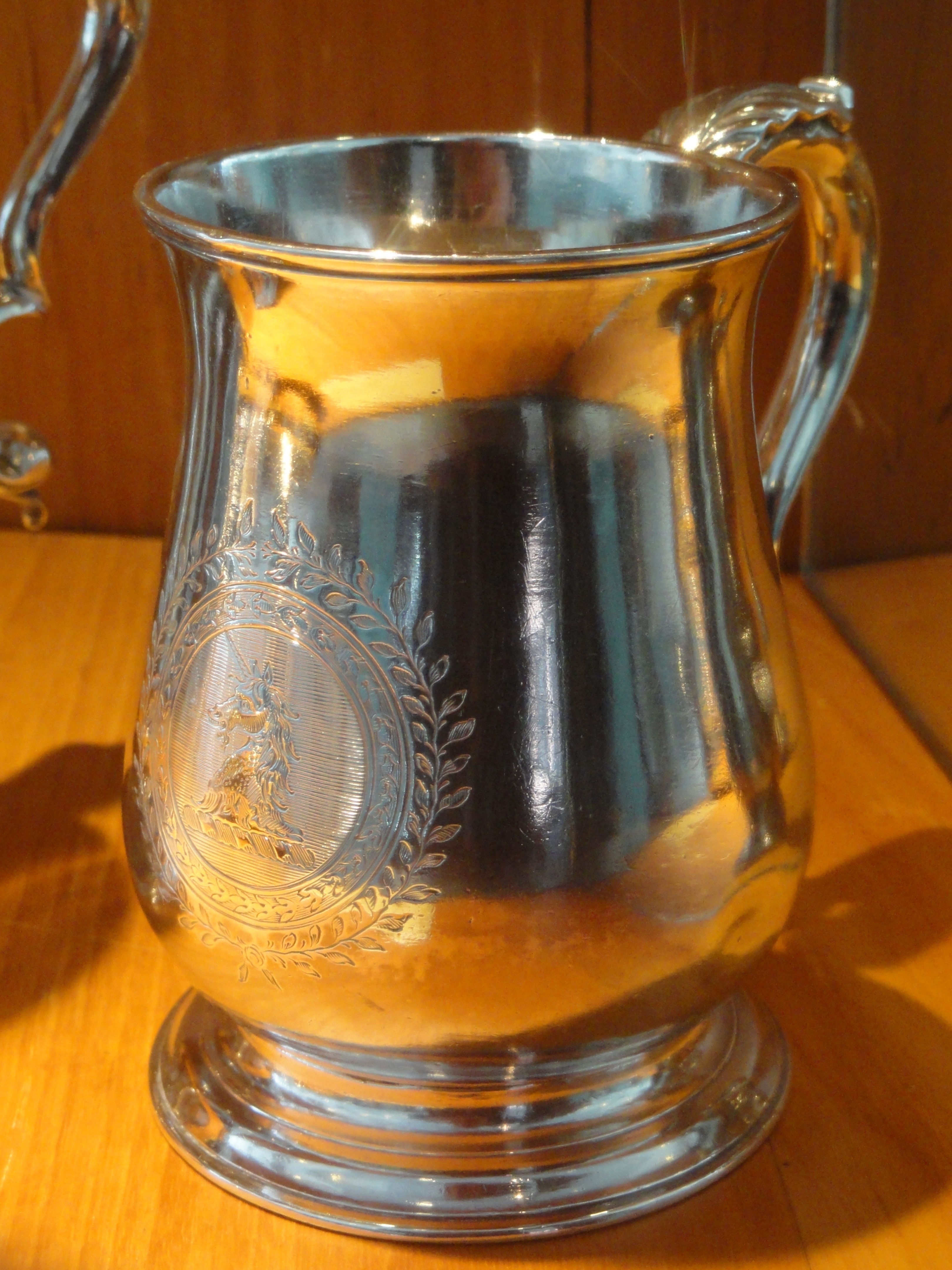 Cann, Zachariah Brigden, Boston, c. 1780, silver - Hood Museum of Art, Dartmouth College, Hanover, New Hampshire, USA. This work is in the public domain because the artist died more than 70 years ago.